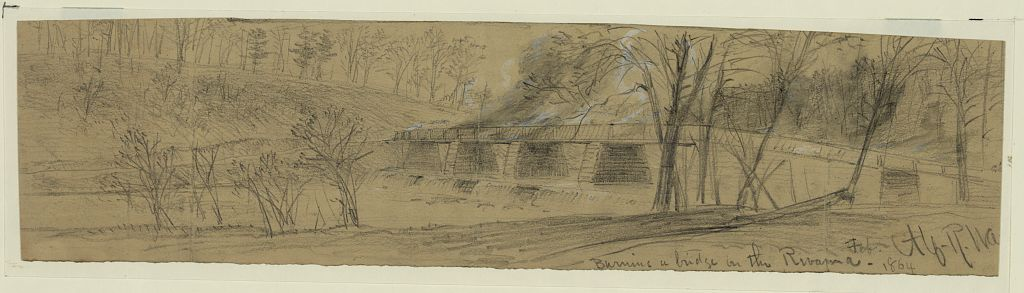 "Burning a bridge on the Rivanna, Feb. 1864" by Aflred R. Waud. Published in: Harper's Weekly, 26 March 1864, p. 200-201, as part of: Scenes Connected with General Custer's Movement Across the Rapidan. Note: Waud accompanied Custer's expedition and sketched the burning of the bridge over the Rivanna River at Rio Mills by Custer's men.